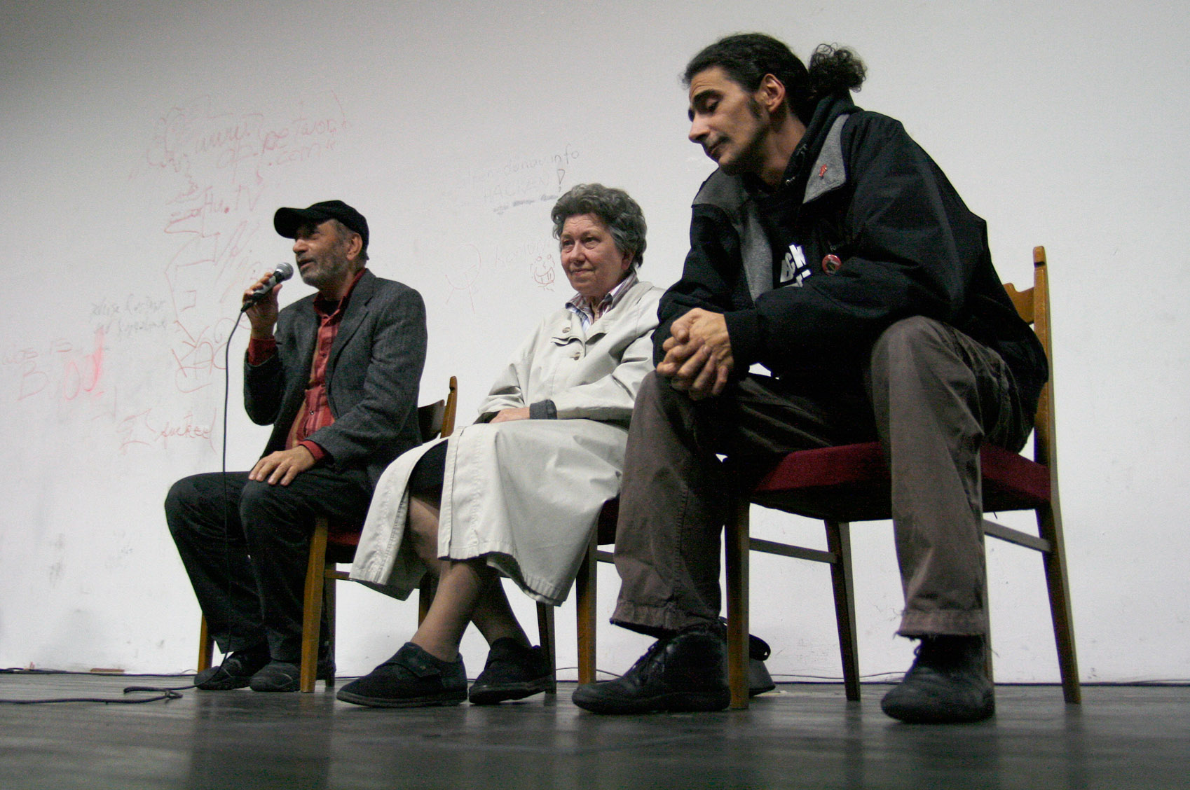 Ute Bock with film directors Tom-Dariush and Houchang Allahyari at the advance screening of Bock for President at the Auditorium Maximum of the University of Vienna, that was occupied by protesting students in autumn 2009.